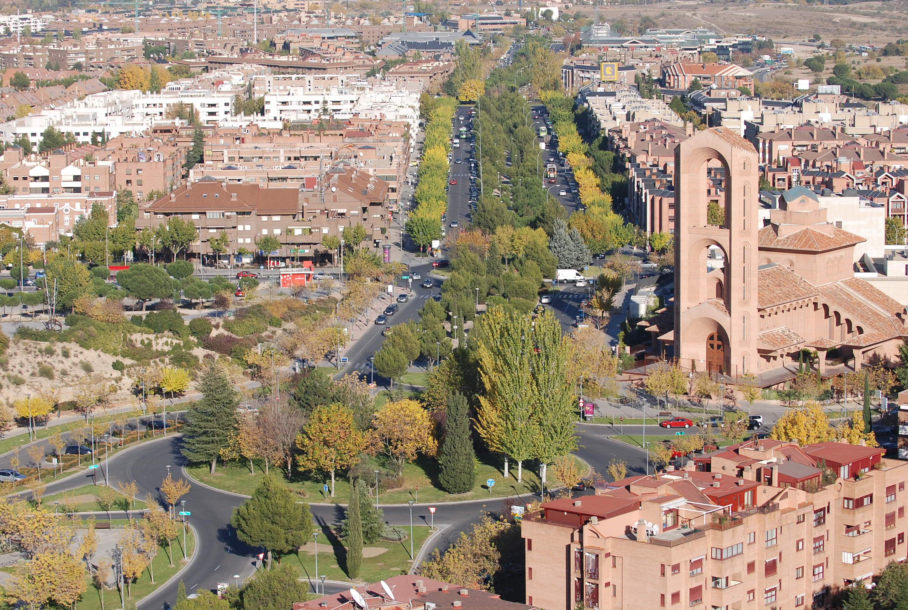 View of Pozuelo de Alarcón, looking down the Avenida de Europa